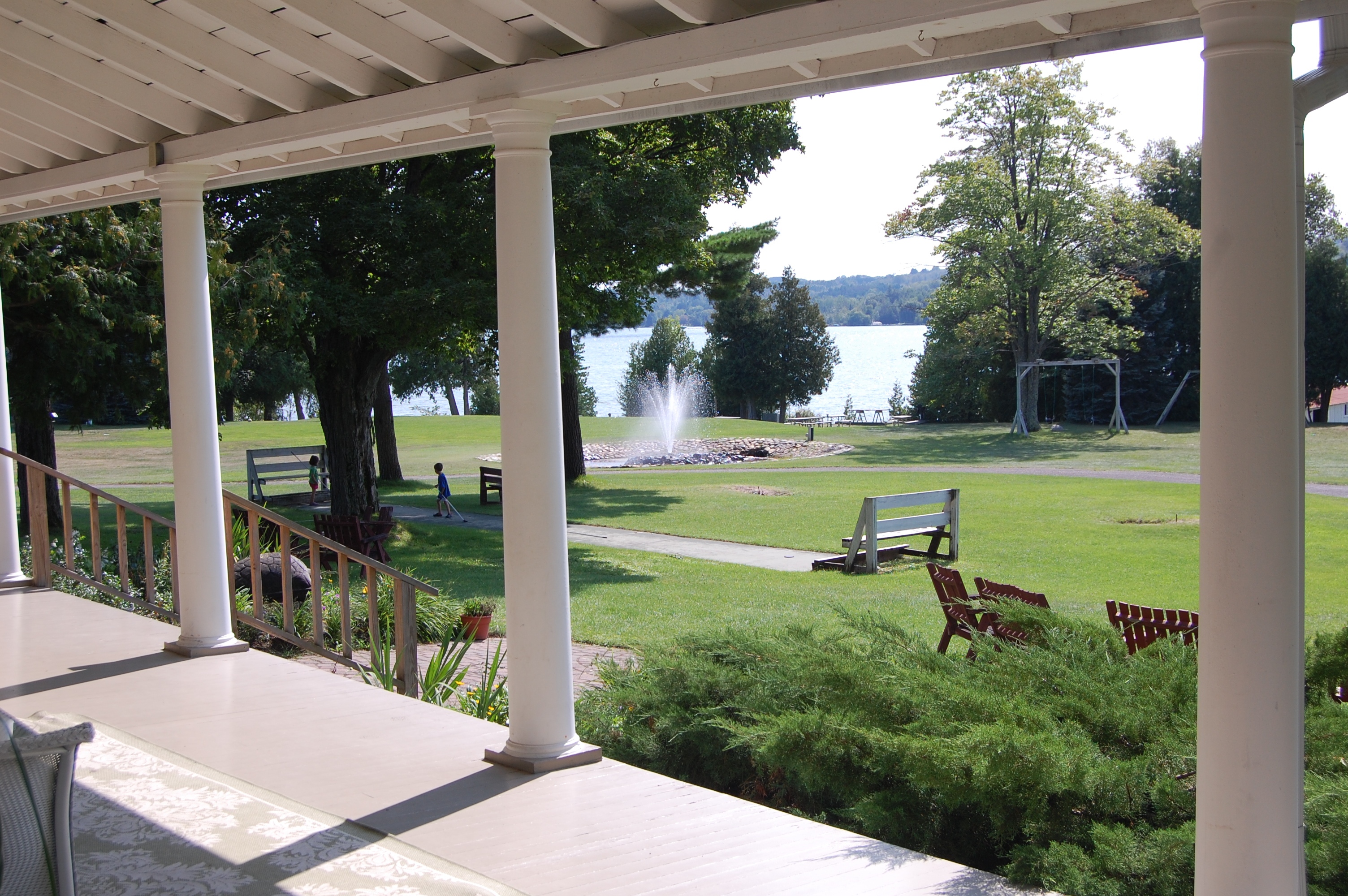 A photograph taken in August 2010 from the landscape of Fountain Point, a historical landmark and resort located on Lake Leelanau.